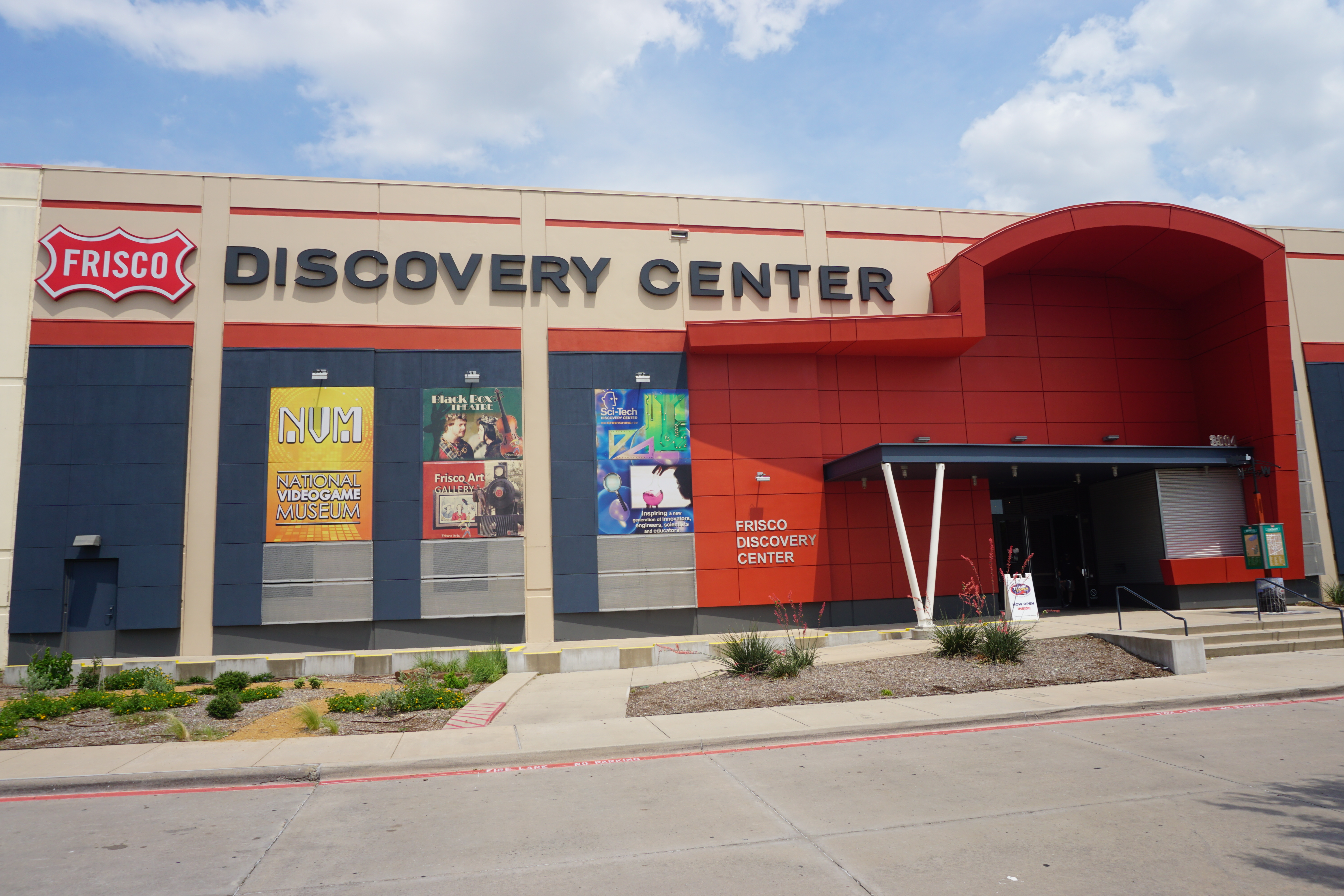 The Frisco Discovery Center in Frisco, Texas (United States).